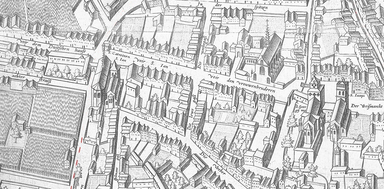 Köln - Severinstraße Arnold Mercator (1570)